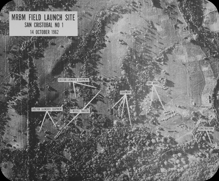 MRBM Field Launch Site, San Cristobal No. 1, October 14, 1962, Cuba Crisis